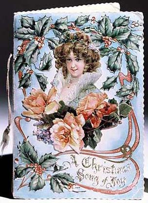 Christmas card, ca. 1880 Featured on the Minnesota Historical Society's Collections Up Close blog.